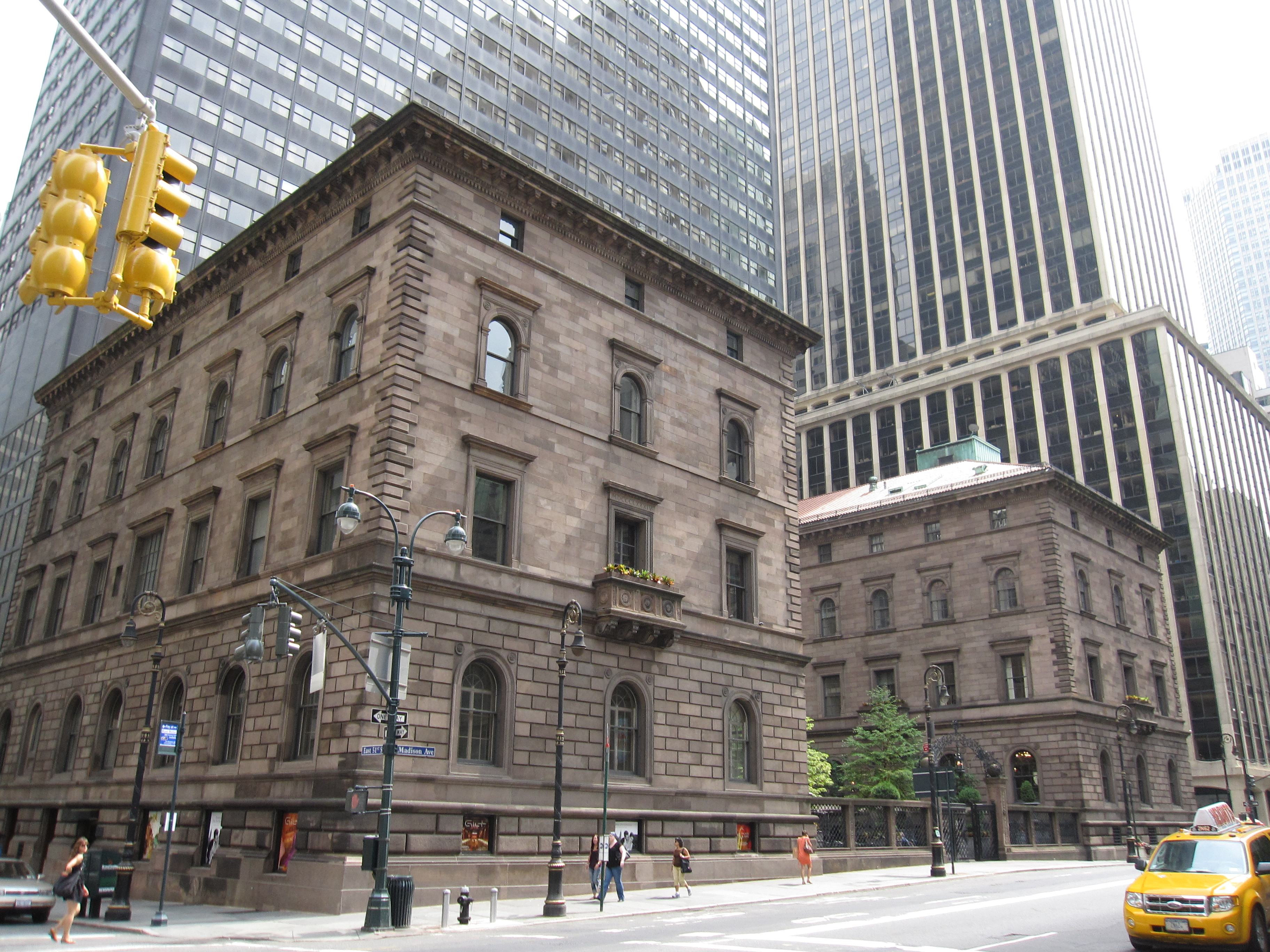 Villard Houses